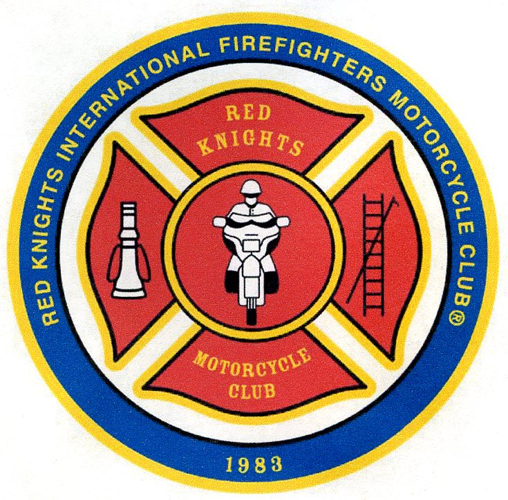 Seal of Red Knights International Firefighters Motorcycle CLub